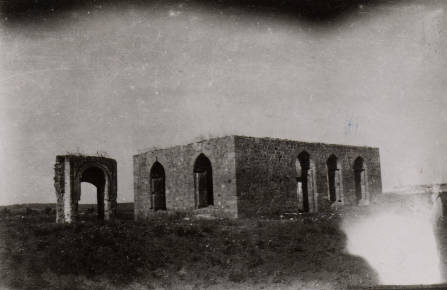 Edirne Sarayı kalıntıları. Photos by Ali Saim Ülgen . SALT Araştırma, Ali Saim Ülgen Arşivi. SALT Research, Ali Saim Ülgen Archive